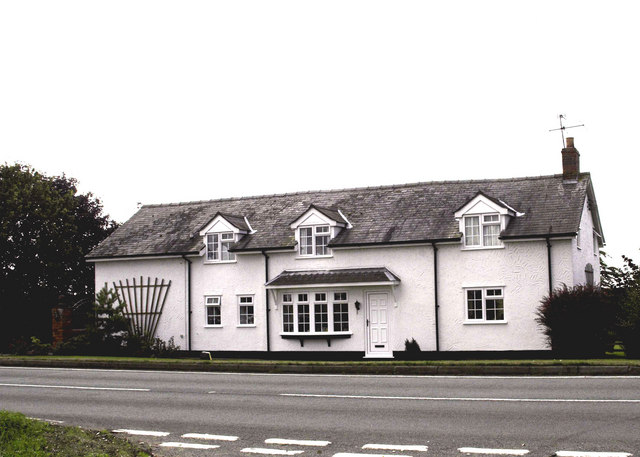 Former Smithy. Located on A495